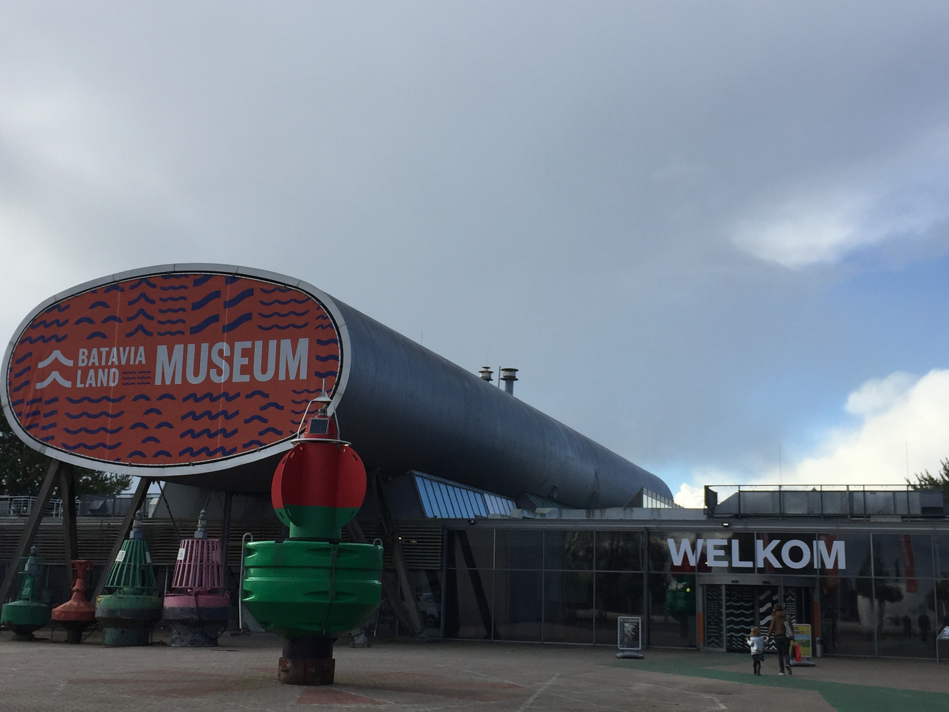 Museum Batavialand in Lelystad (the Netherlands)